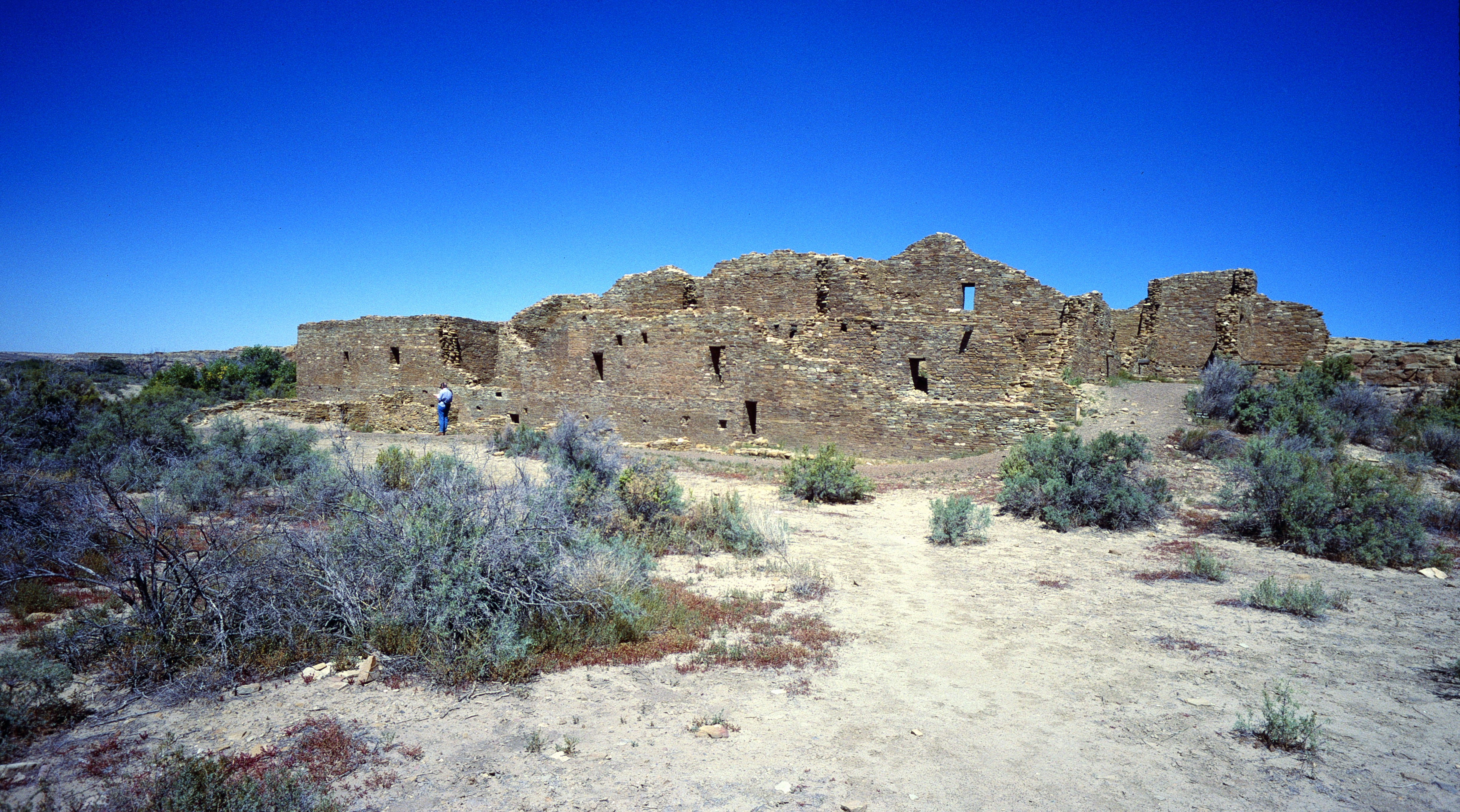 Pueblo del Arroyo, Chaco Canyon, New Mexico, U. S. A.